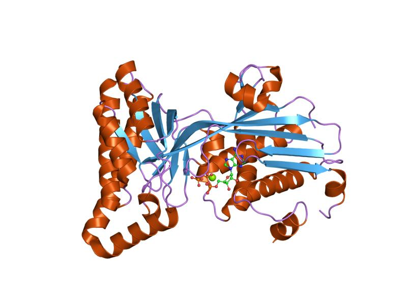 Cartoon representation of the molecular structure of protein registered with 1kvk code.